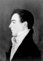 Armistead Thompson Mason